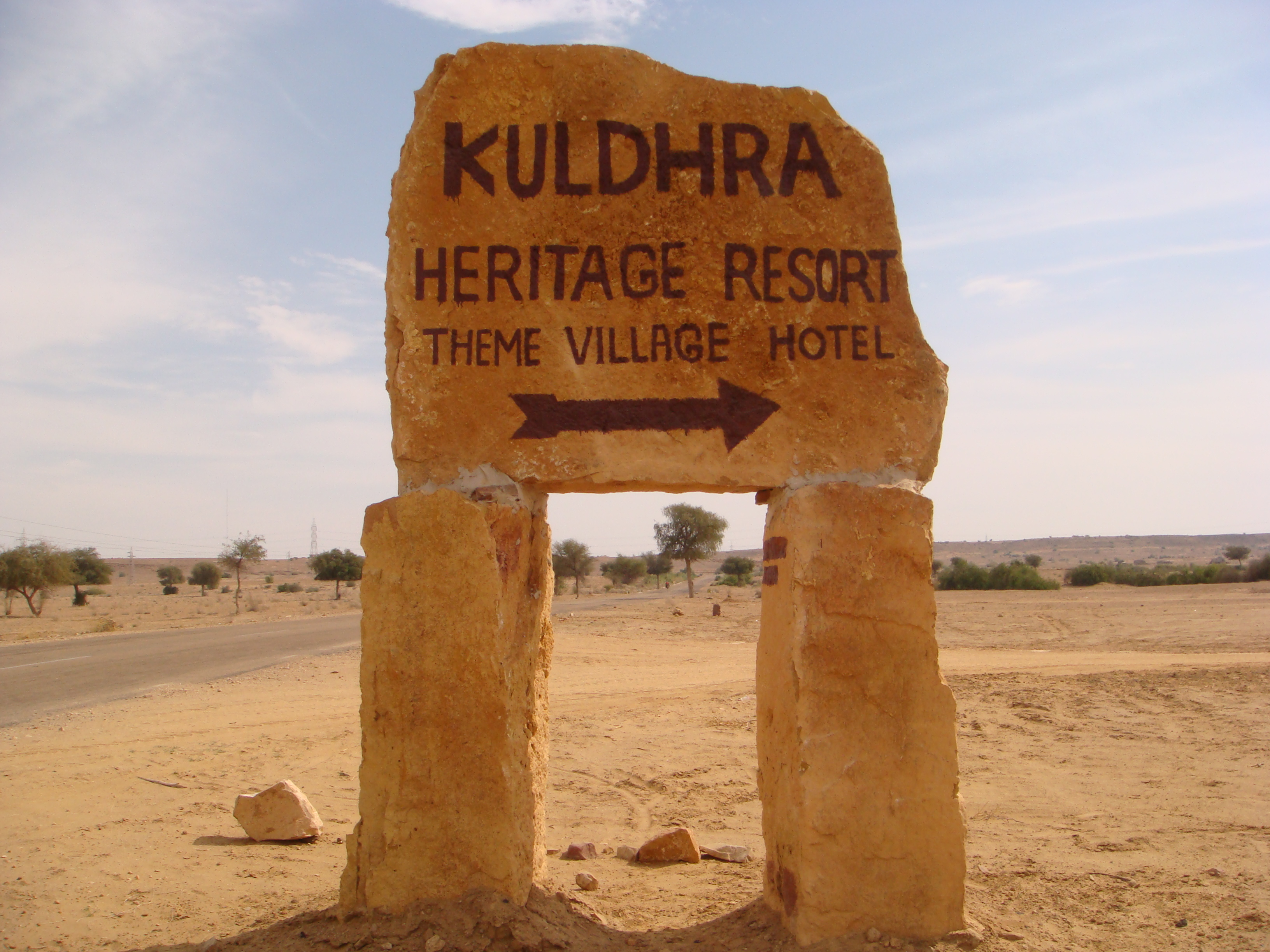 KULDHARA IS A HERITAGE VILLAGE IN JAISALMER IN RAJASTHAN STATE OF INDIA